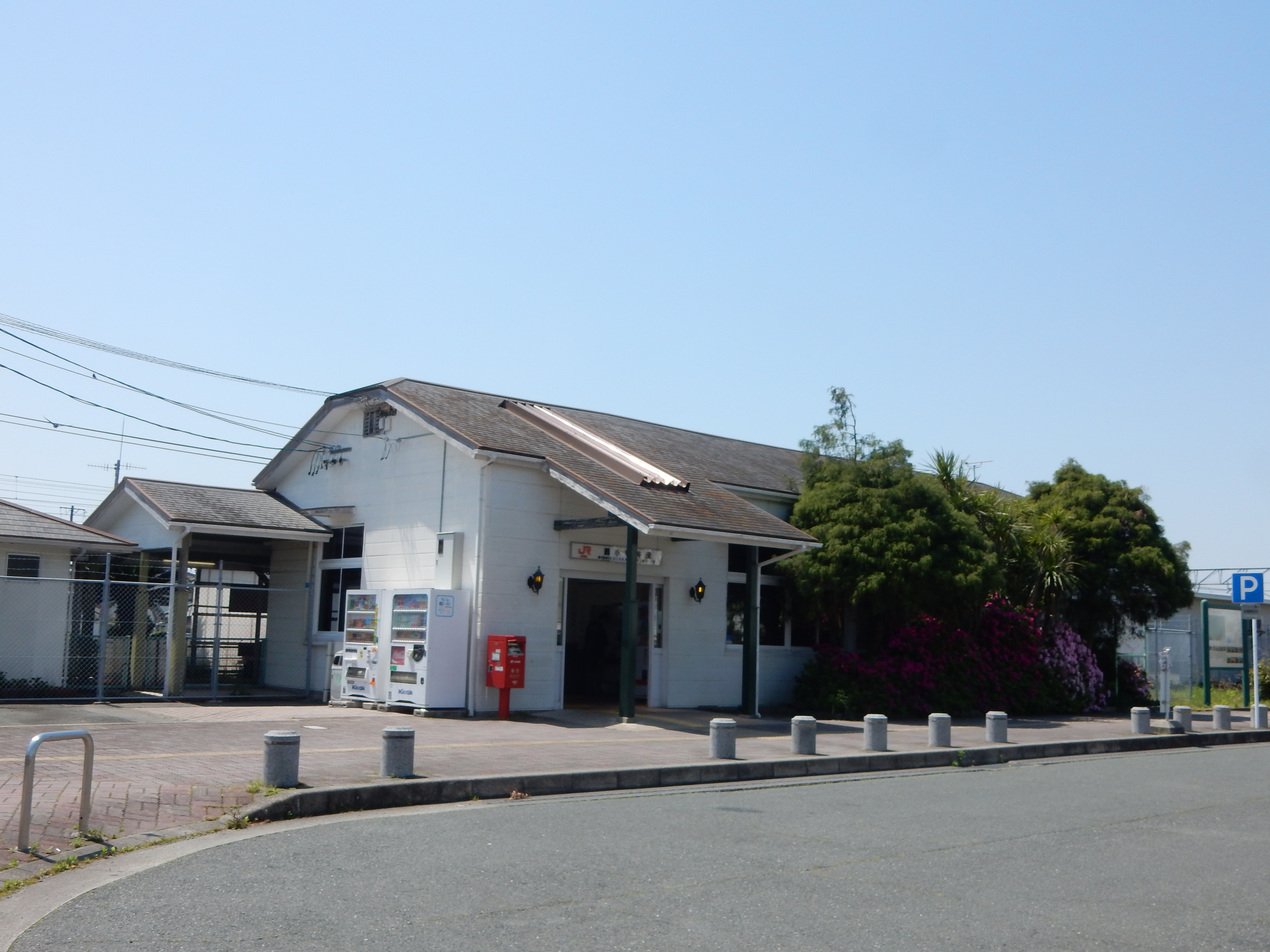 Nishi-Kozakai Station (西小坂井駅), at 20 Maeyama, Inacho, Toyokawa, Aichi, Japan